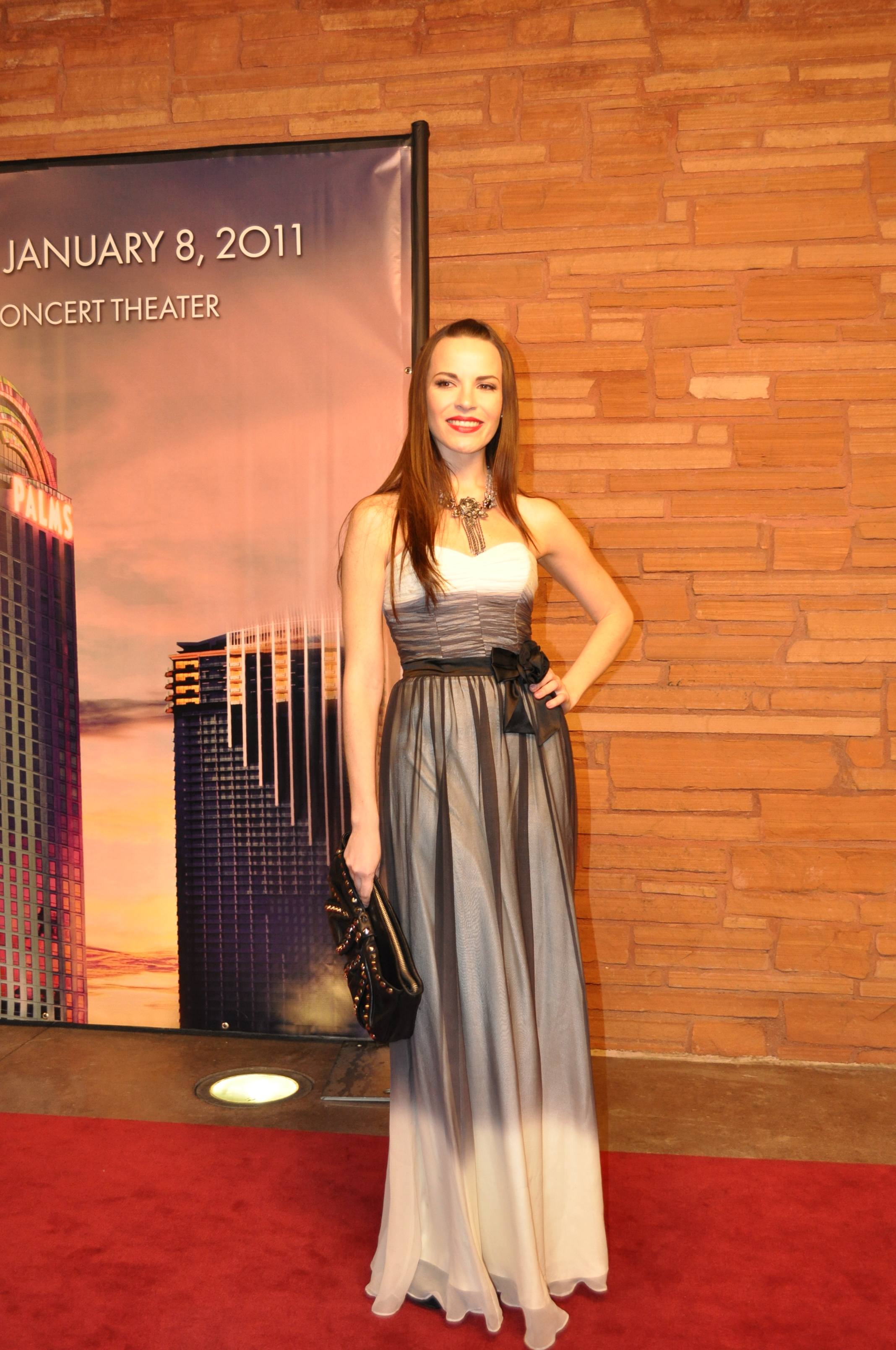 Dana DeArmond at AVN Awards 2011